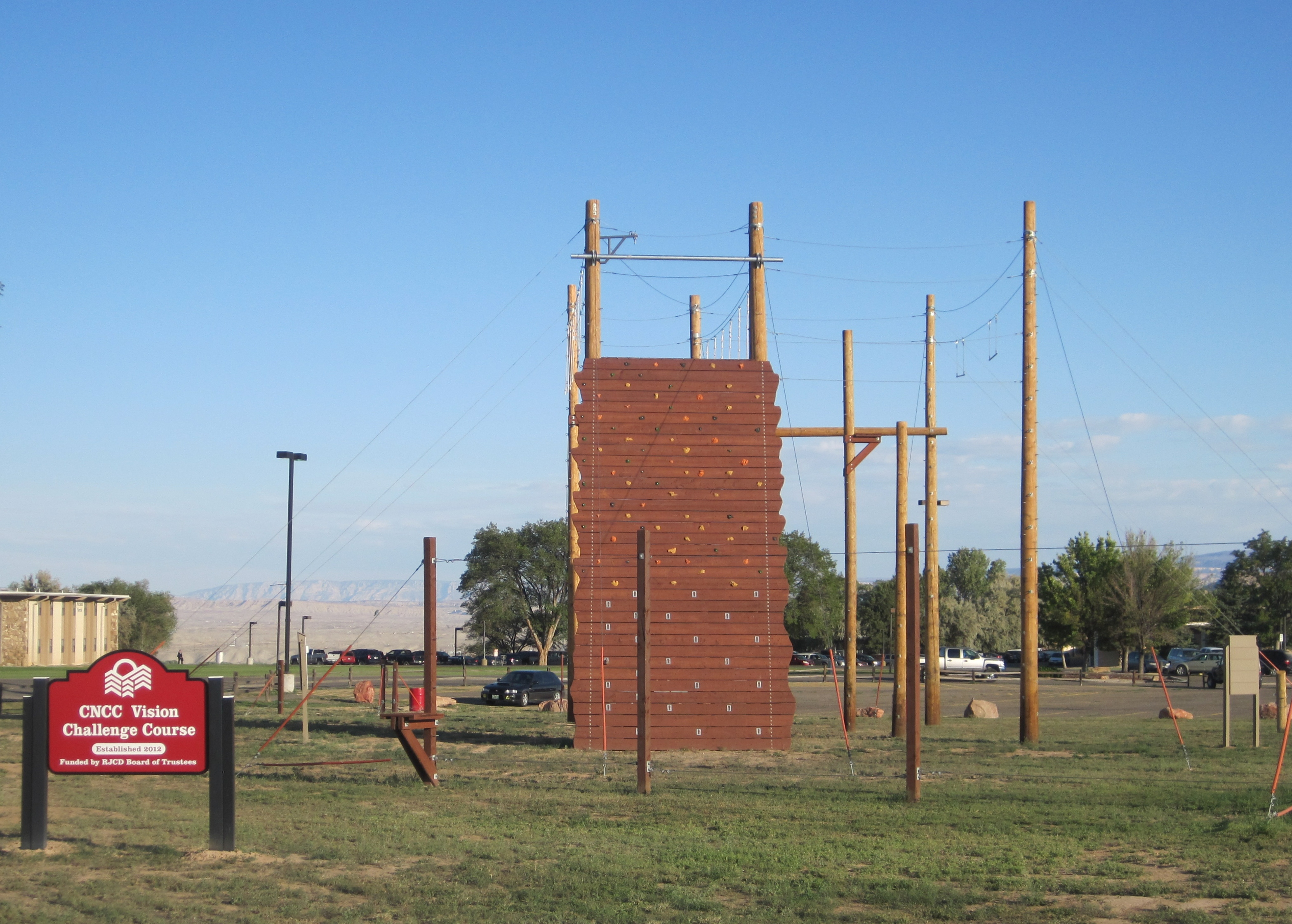 Rope course at Colorado Northwestern Community College, Rangely Campus